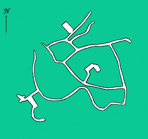 Orthodox Catacombs in Preobrazhene (Ukraine)